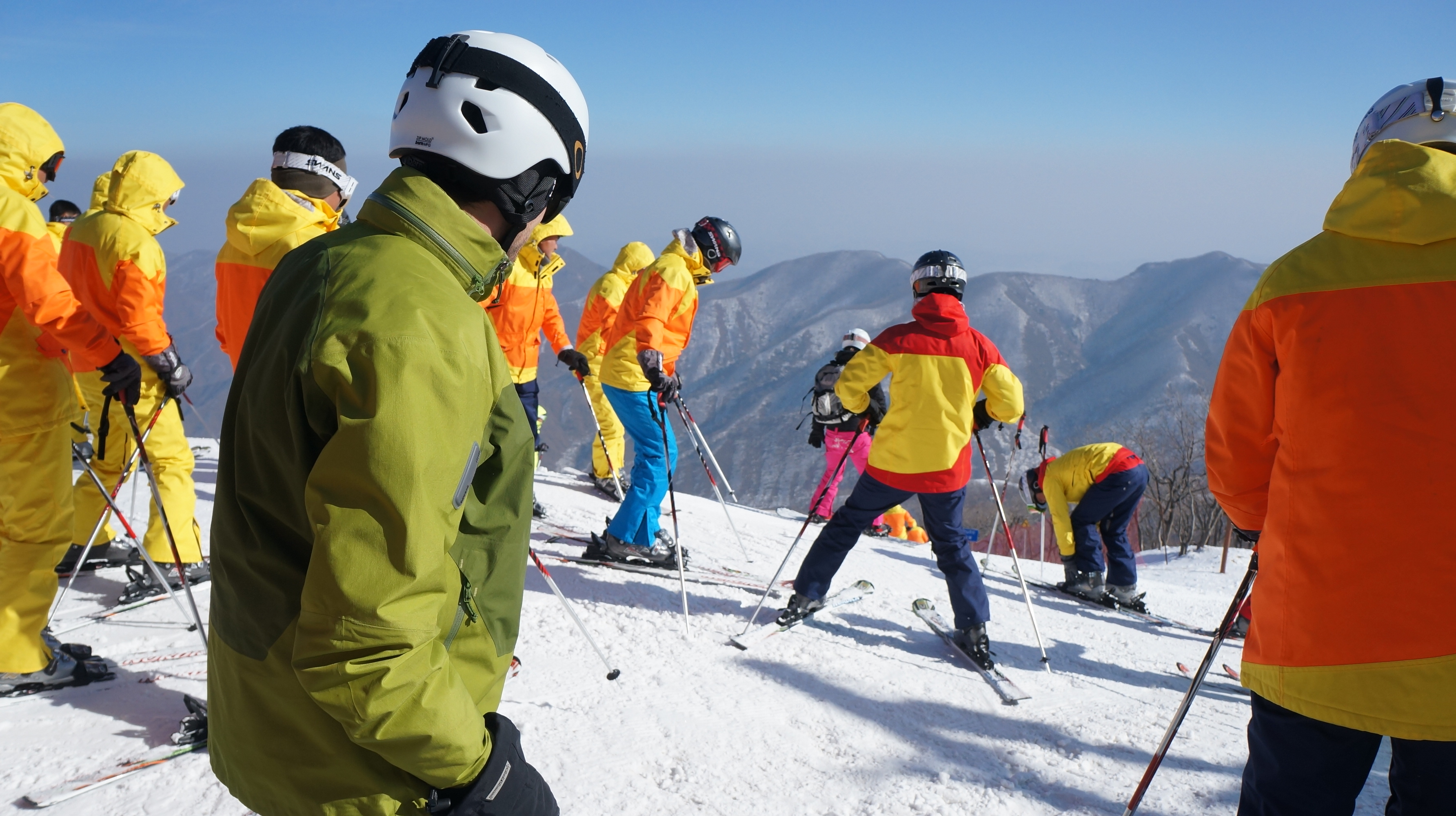 Snowboarders and skiers ride down together from the peak.